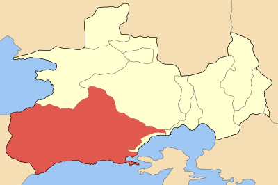 Locator map of Megareon municipality (Δήμος Μεγαρέων) at West Attica perfecture, Greece.